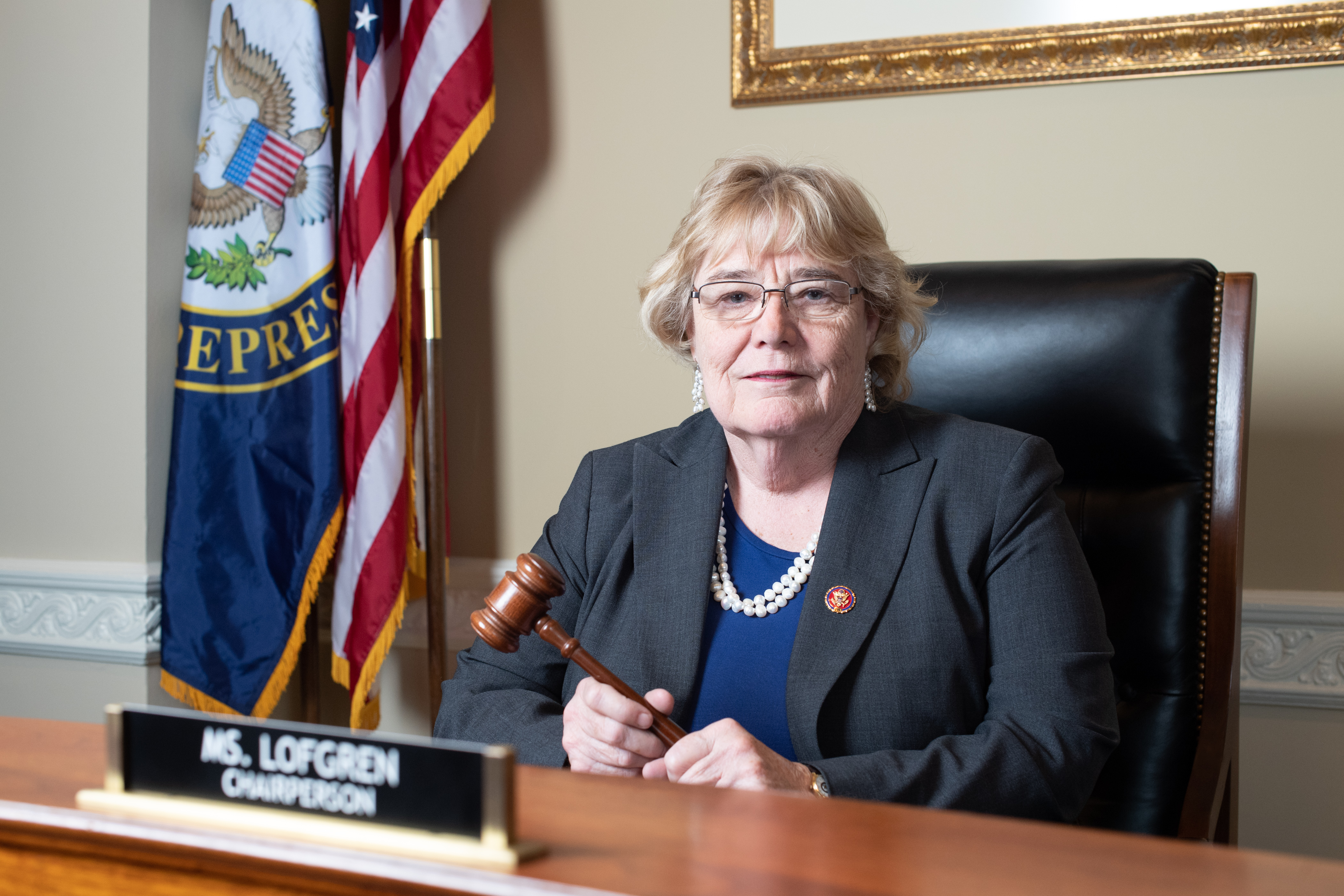 Zoe Lofgren, chairperson of the United States House Committee on House Administration, in the 116th United States Congress.